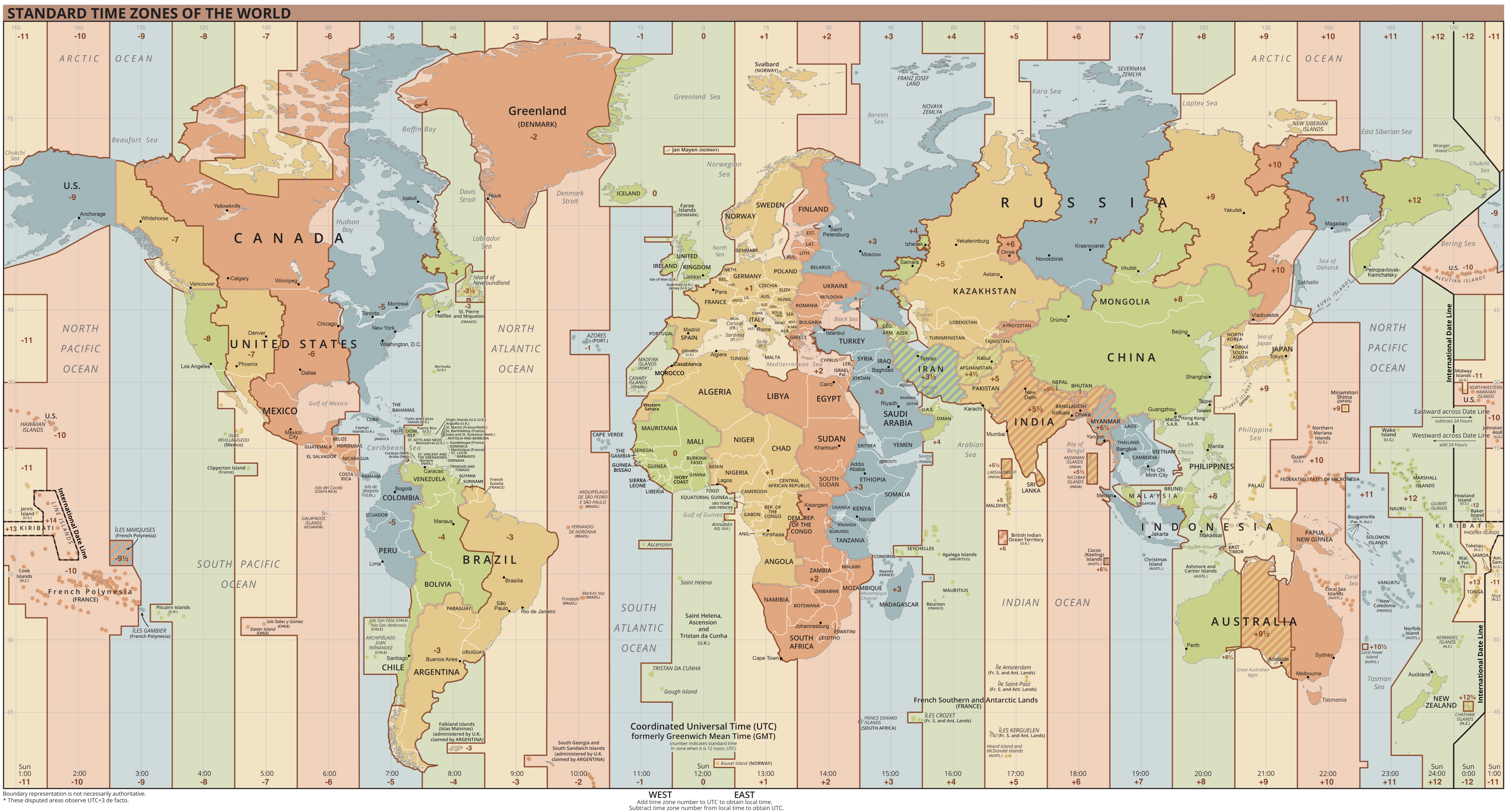 Map of current official time zones.